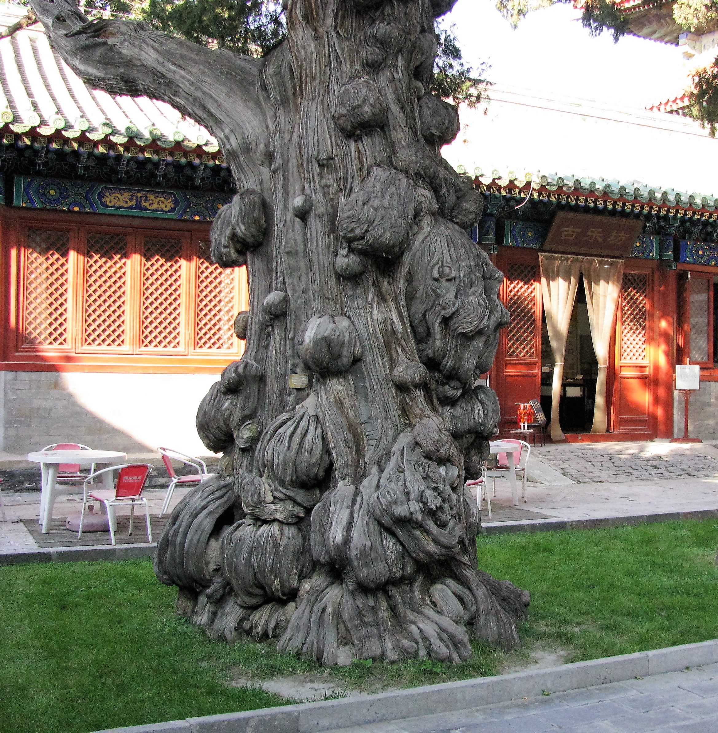 Multiple burls on a several-hundred-year-old cypress tree at the Beijing Temple of Confucius, China.